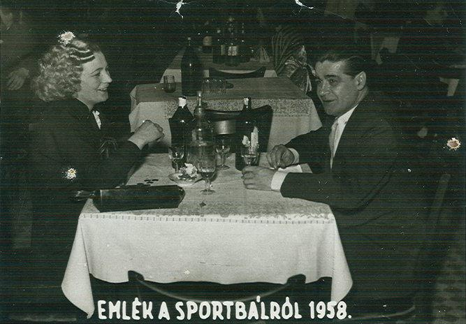 Dezso Pfluger with his wife